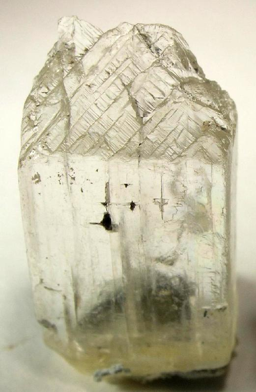 Edingtonite Locality: Bolet, Karlsborg, Sweden Size: thumbnail, 1.8 x 1 x .4 cm Edingtonite This is an old classic, rarely seen as it is. But these two specimens...Superb gem-quality crystals no less...are just incredible! I have not seen the like for the locality. In fact, the only Edingtonite I have seen even for sale are the small opaque crystals from Canada or Scotland. These two specimens have great clarity, what must be incredible size and form for the species, and very good luster. Important as rarities, classics, or thumbnails of mindboggling esoteric quality. Both are basically equivalent, of similar size, and each is complete all around save for a flat contact on the back face only. 1.8 x 1 x .4 cm